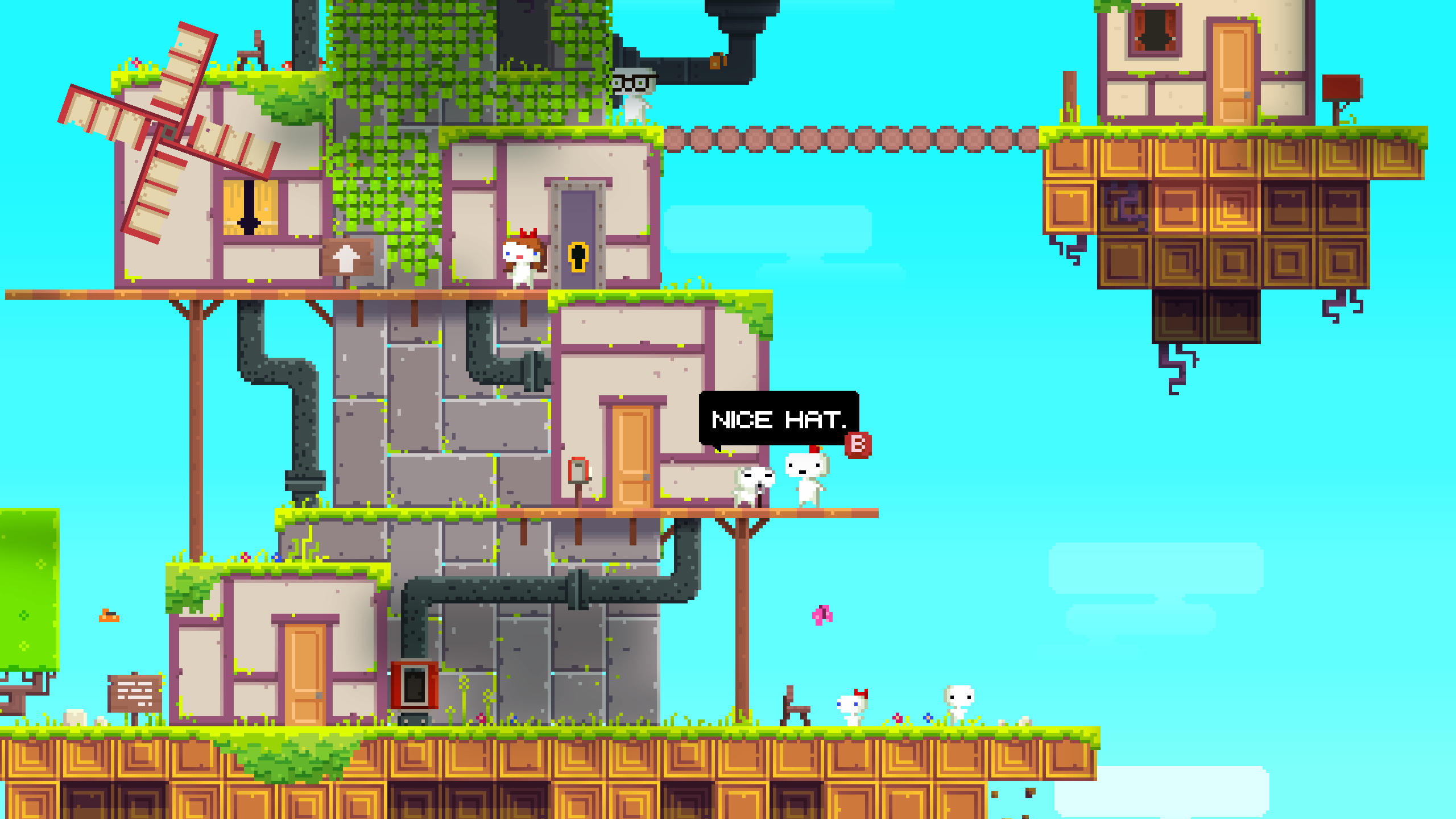 Screenshot from Fez press kit